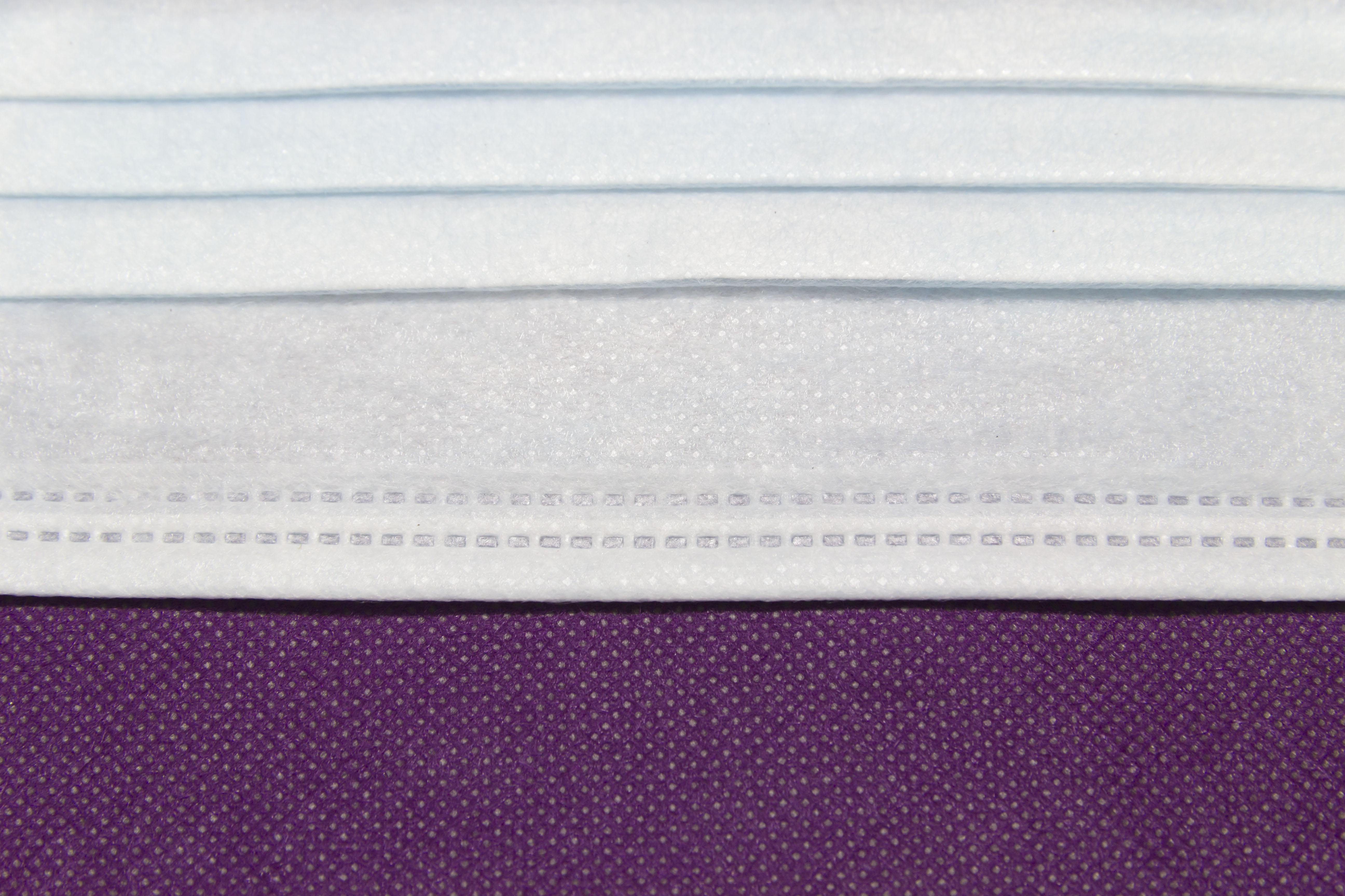 Reusable shopping bags and surgical masks non-woven fabric